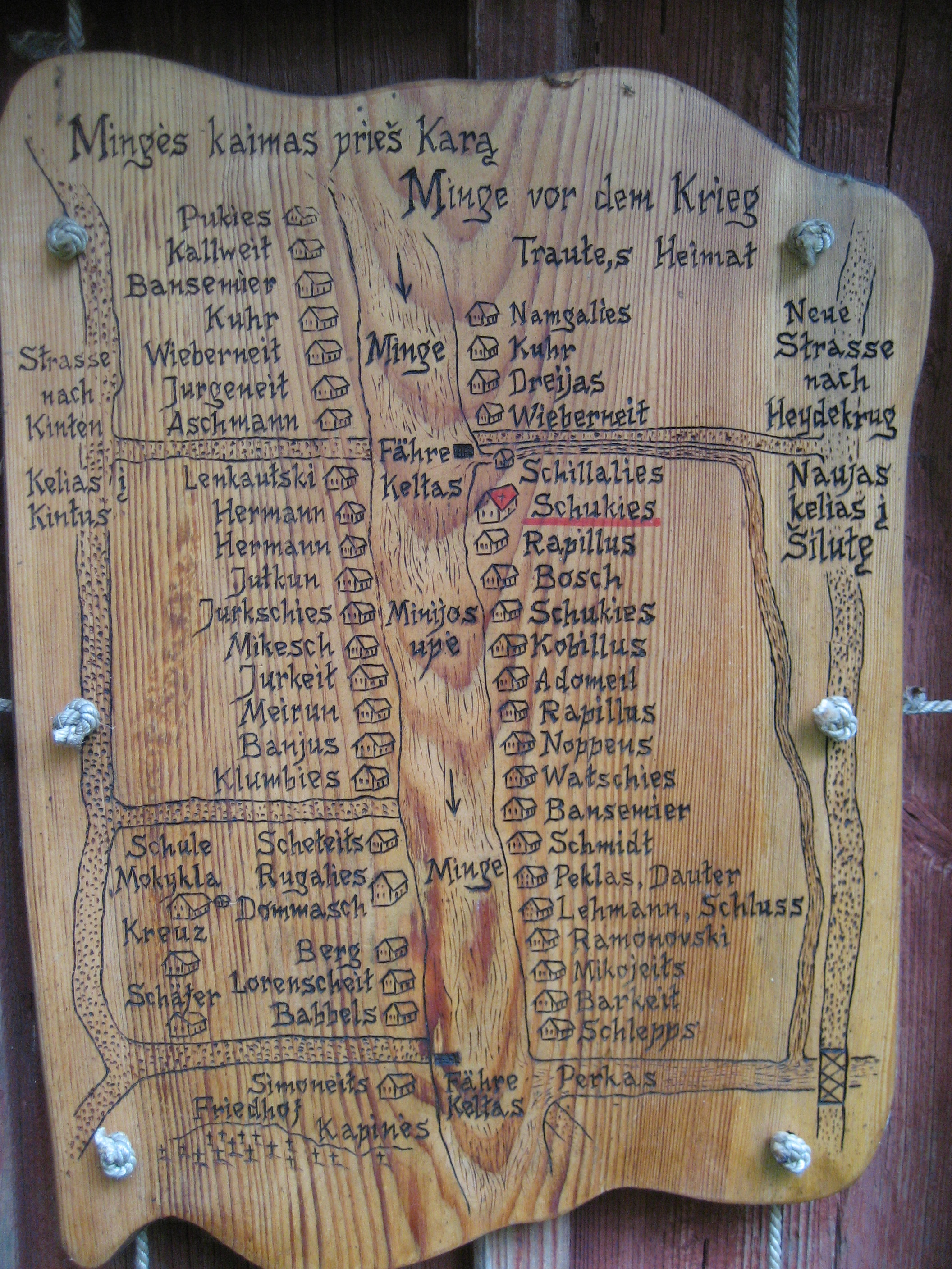 Plan of Mingė village before World War II (in Lithuania and in German).